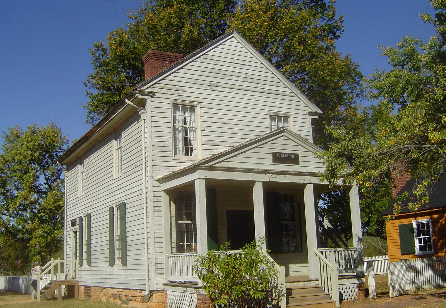 Plunkett-Meeks Store with the Appomattox Court House National Historical Park.